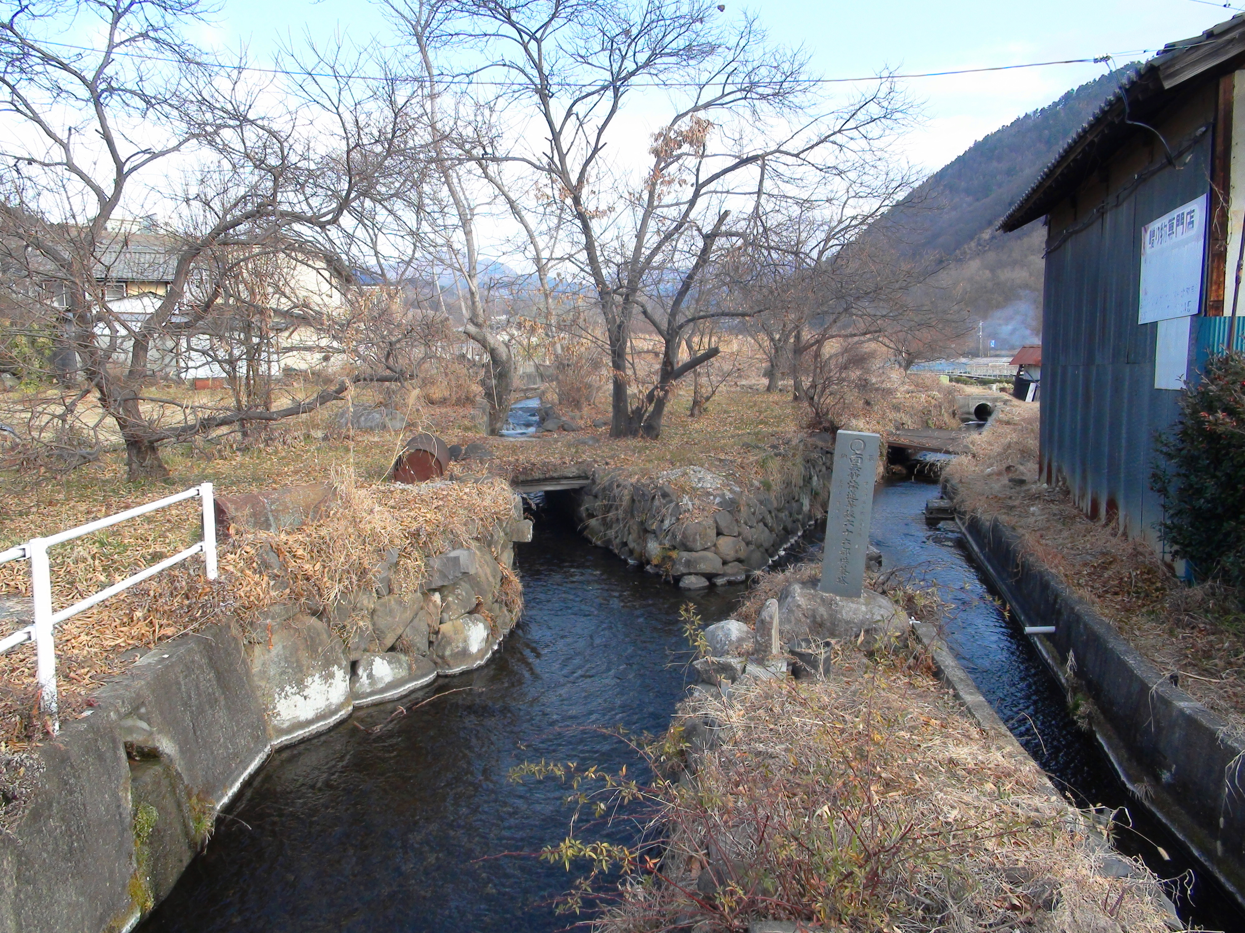 Kamijo-Seki irrigation waterway place where a flow turns in Yamanashi prefecture